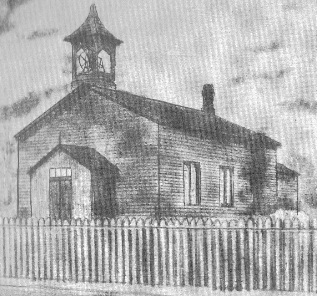 Old sketch of the original Christ Church Anglican in Mimico (the first church in Etobicoke). Located on (what is now) Royal York Road across from Judson Street.